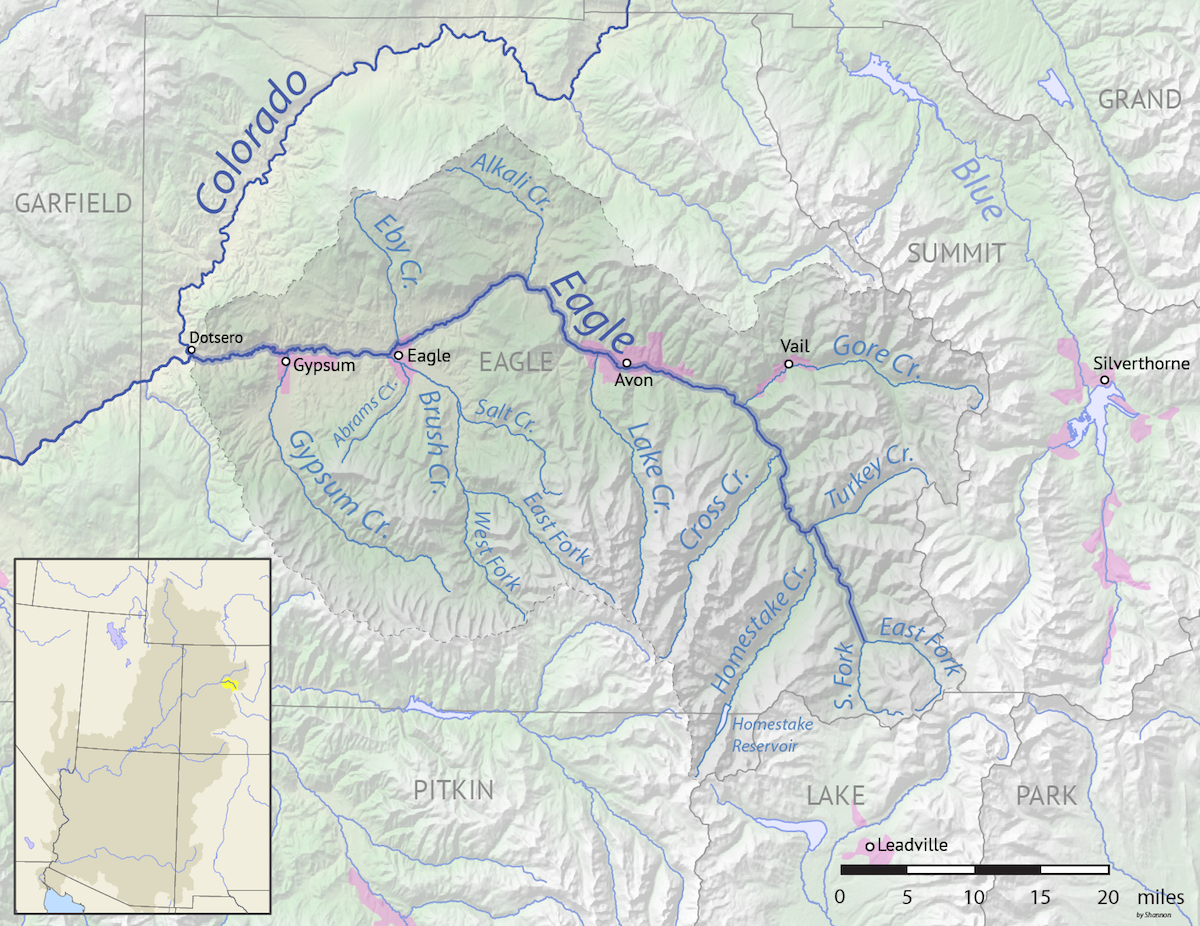 Map of the Eagle River drainage basin in Colorado, USA. Made using USGS data.